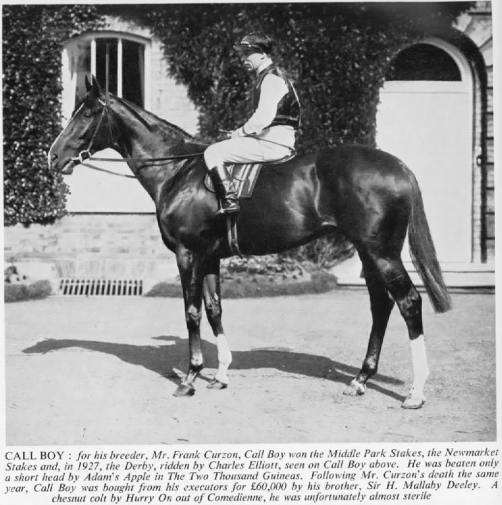 Photograph of Epsom Derby winner Call Boy. Image circa 1927.